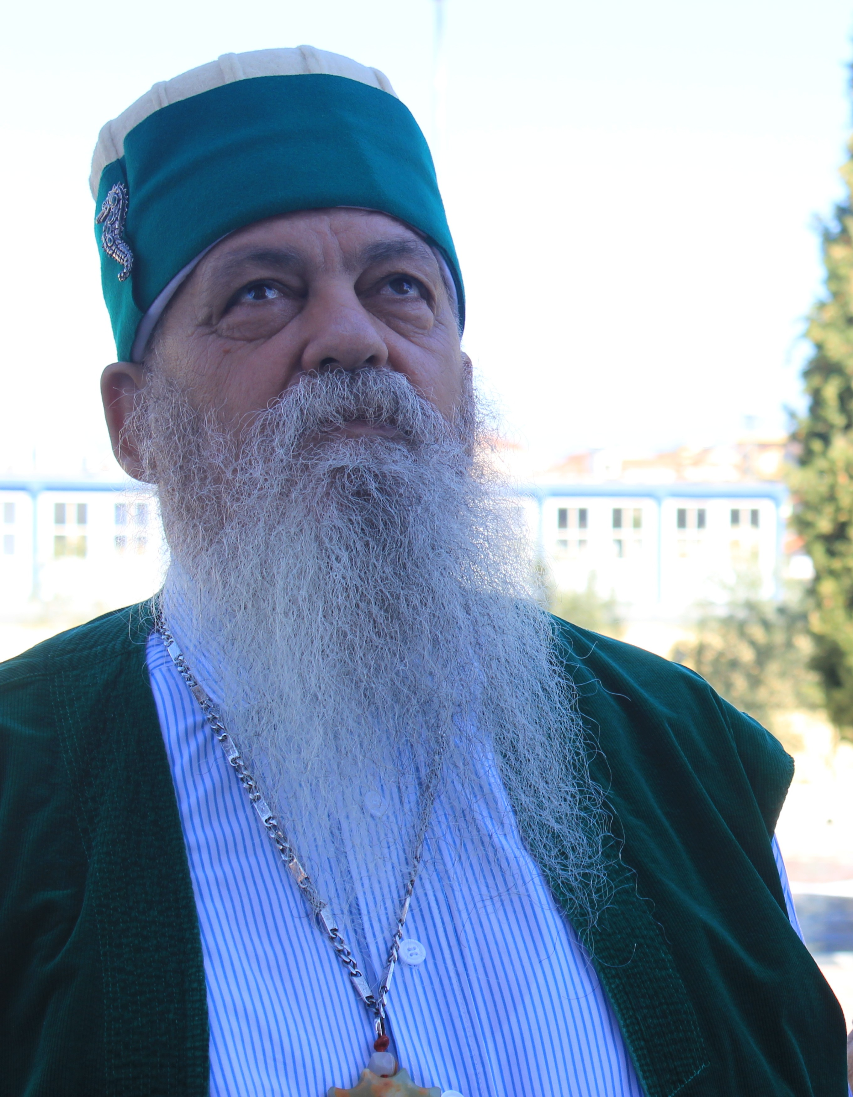 Edmond Brahimaj (Baba Mondi), head of the Bektashi order since 2011.